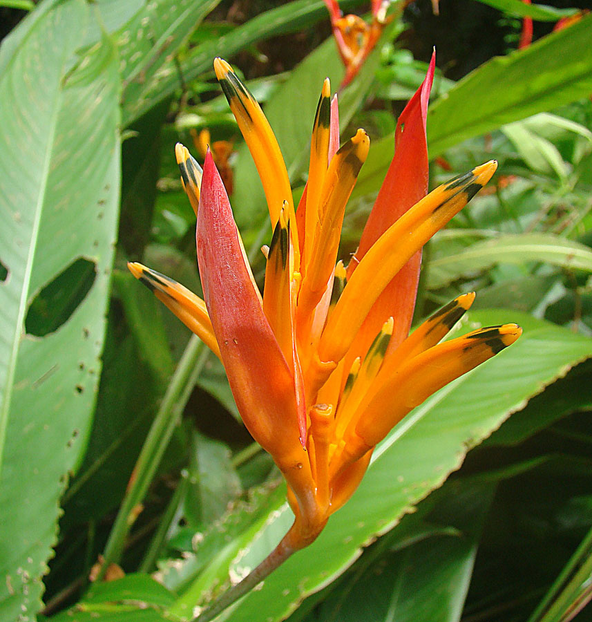 Of Brazilian origin, but a favorite in tropical gardens. Photo from Boquete, Panama. In context at